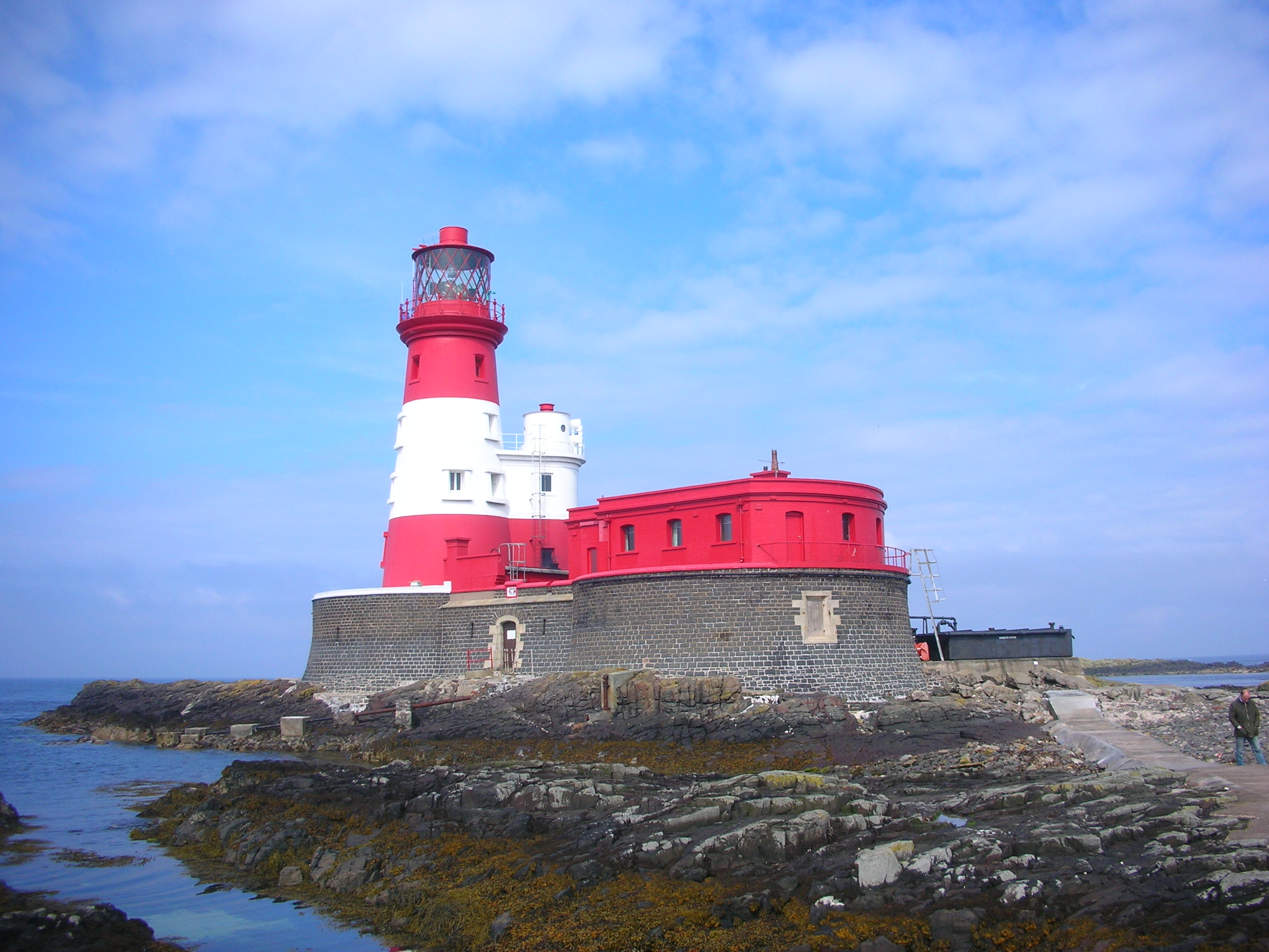 This is the lighthouse where Grace Darling and her father were stationed when she performed her legendary rescue. See where the photo was taken at Yuan.CC Maps .